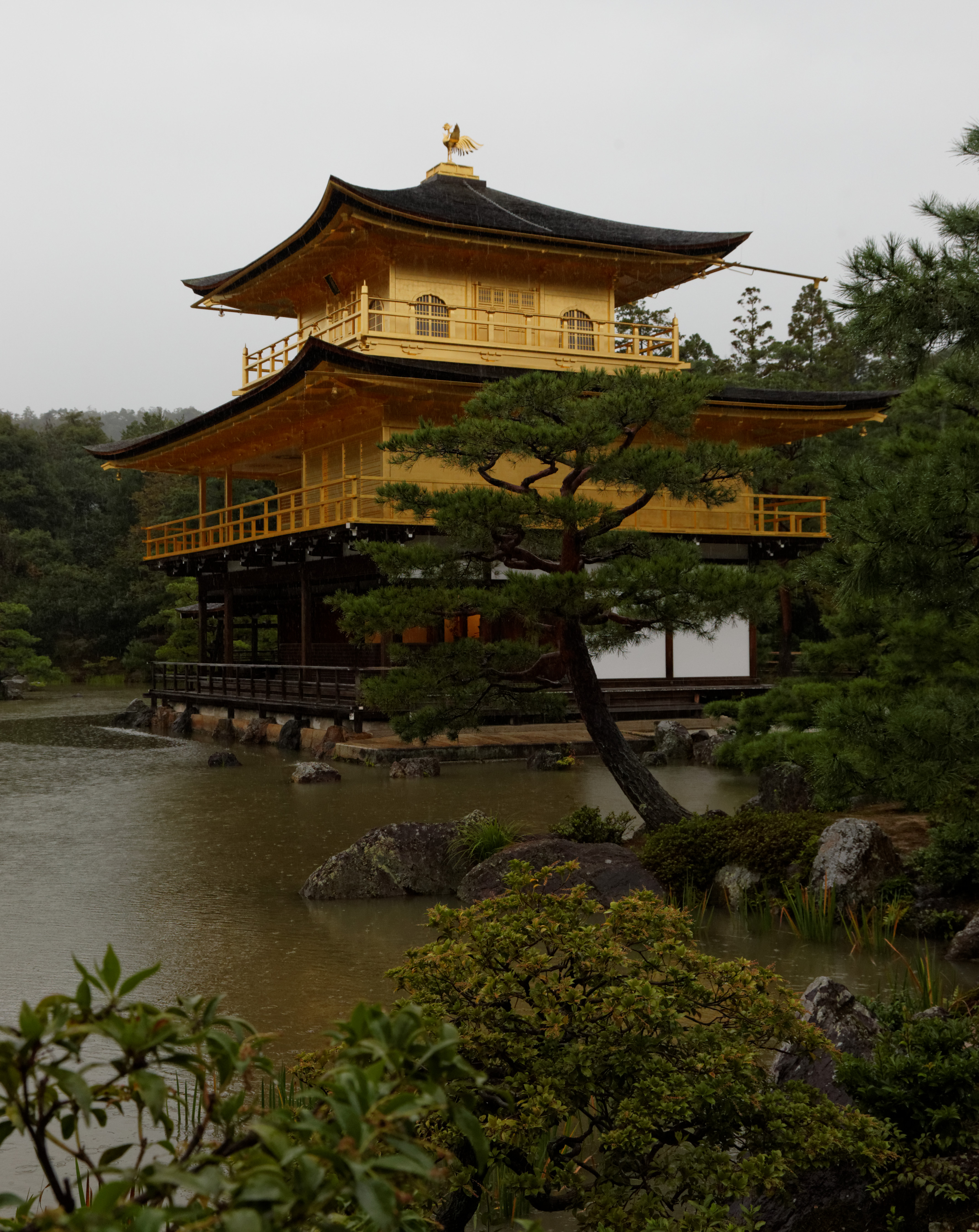 Kinkakuji and Ryoanji